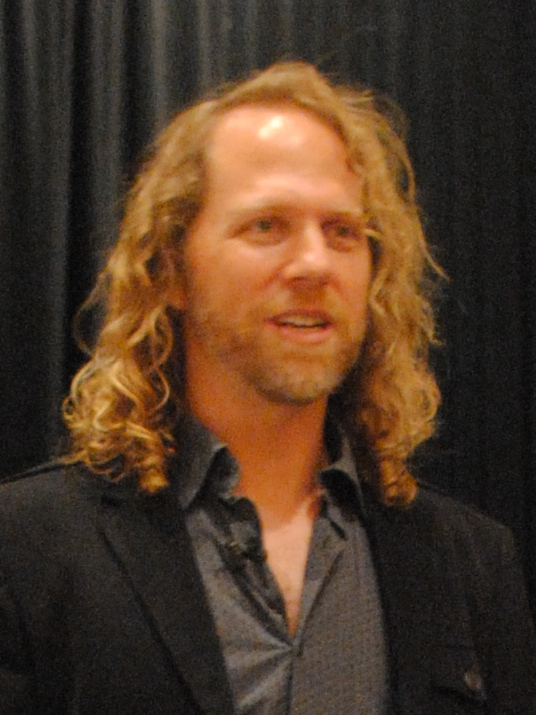 Peter Linz, an American pupeteer, at DragonCon